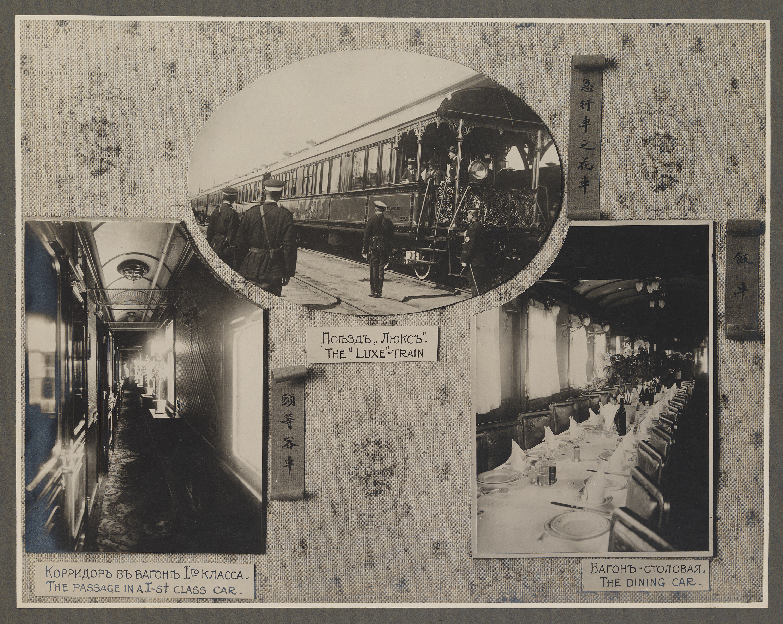 Title: [Chinese Eastern Railway: Exterior and Interior Views of First Class Passenger Cars] Creator: Unknown Date: ca. 1903-1919 Place: People's Republic of China Part Of: Description: This photograph is part of an album, Views of the Chinese Eastern Railway, which contains 42 photographic prints. The Chinese Eastern Railway, also known as the Trans-Manchurian line of the Trans-Siberian Railway, linked Chita to Vladivostok. Physical Description: 1 photographic print: gelatin silver, part of 1 volume (42 gelatin silver prints); 21 x 27 cm on 27 x 38 cm File: ag1987_0662x_05_opt.jpg Rights: Please cite DeGolyer Library, Southern Methodist University when using this file. A high-resolution version of this file may be obtained for a fee. For details see the web page. For other information, . For more information, View the full album: View the